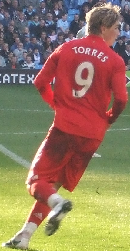 Fernando Torres